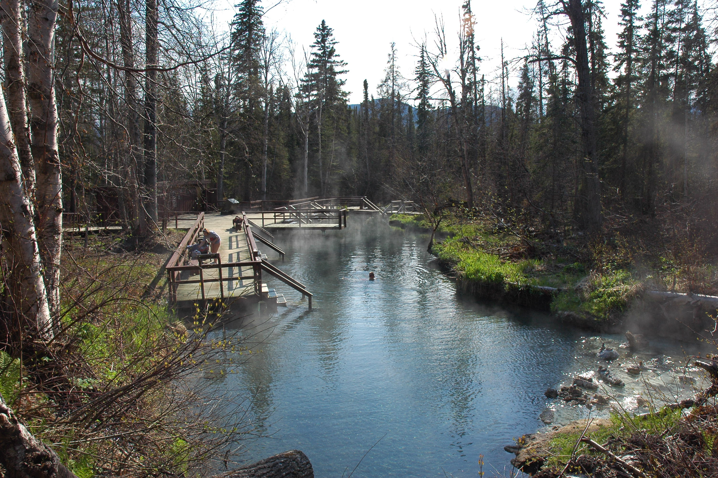 Author: Lee Tengum Taken: May 8th 2007 Overlooking the Alpha pool at Liard River Hotsprings